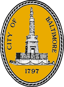 The official city seal of Baltimore, Maryland. The seal was adopted in 1827 and is black and gold in color, containing the emblem of the Battle Monument in the seal's center. Around the monument are inscribed the words, "CITY OF BALTIMORE", and below the monument reads the number, "1797".